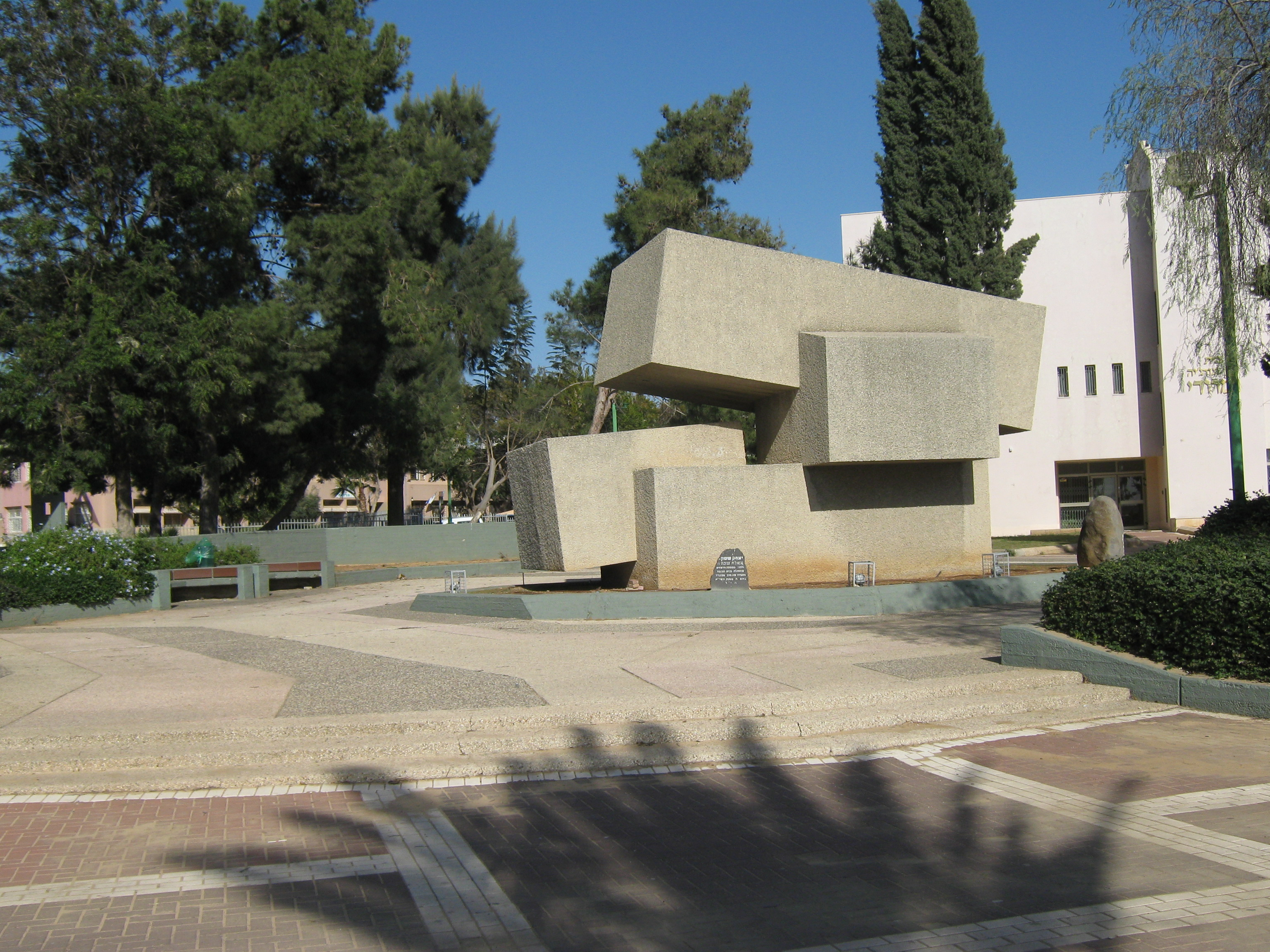 Cities in Israel